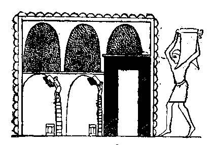 Illustration of an Egyptian granary